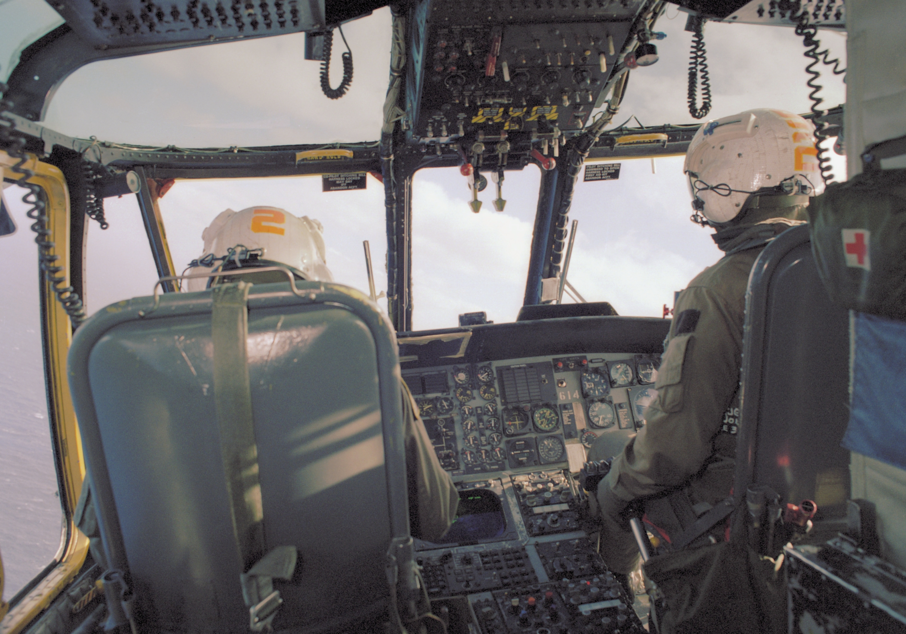 A U.S. Navy pilot and copilot in the cockpit of an Sikorsky SH-3H Sea King helicopter in 1987.